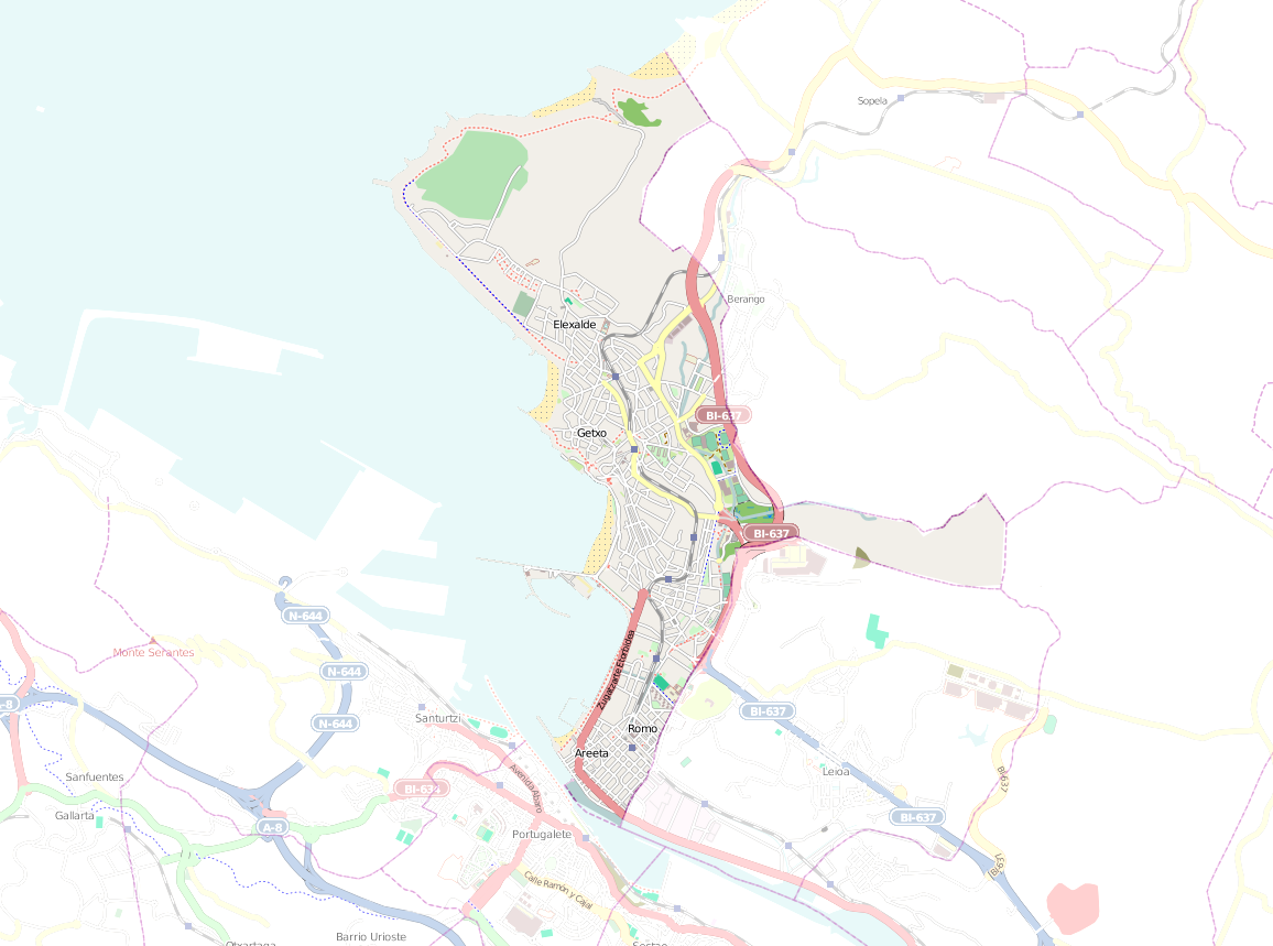 Map of the municipality of Getxo in OSM as of 2010-01-01